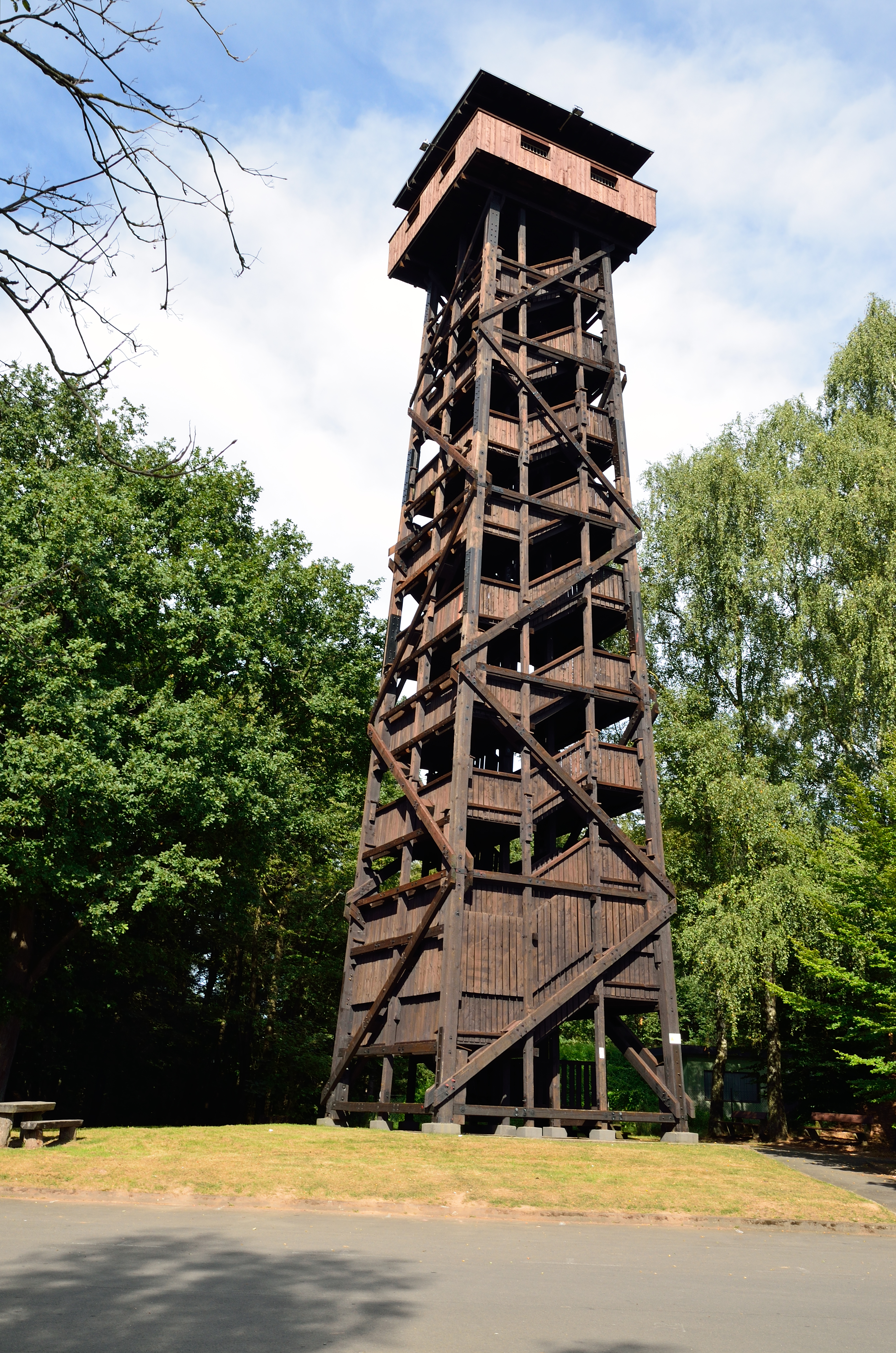 Hunburg tower in Burgholz, Kirchhain